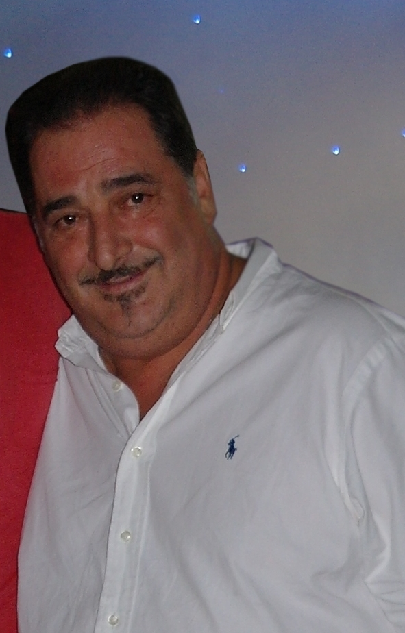 Vasilis Karras @ Politia Live Clubbing, Thessaloniki